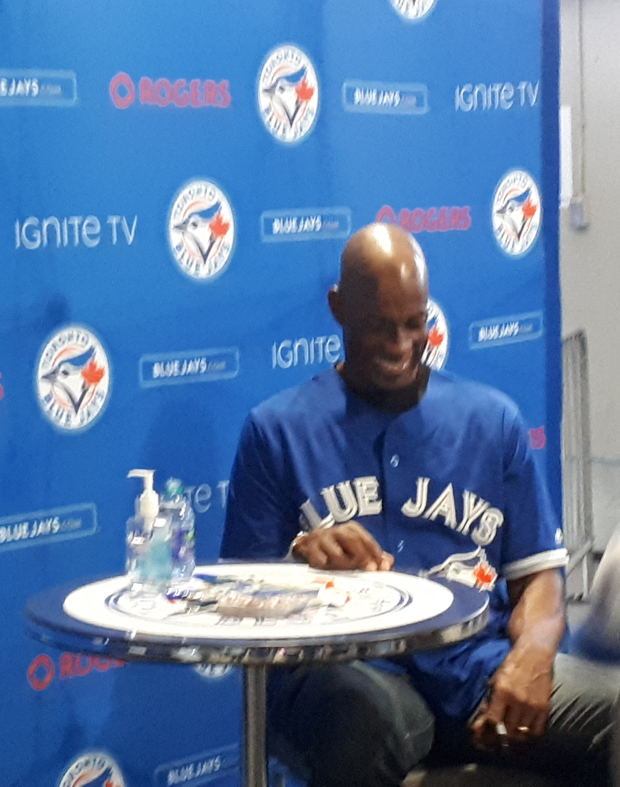 Taken at a fan event at Rogers Centre in June 2019.